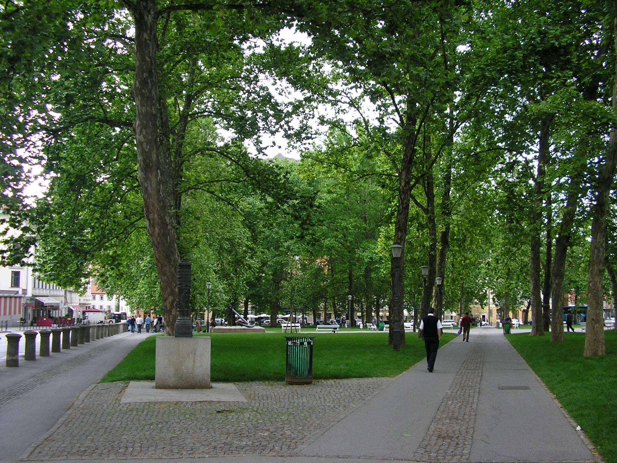 Central park (Zvezda - star) in Ljubljana, Slovenia.